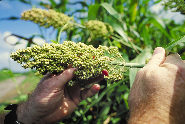 Irrigating grain sorghum near Gainesville, Florida, USA.